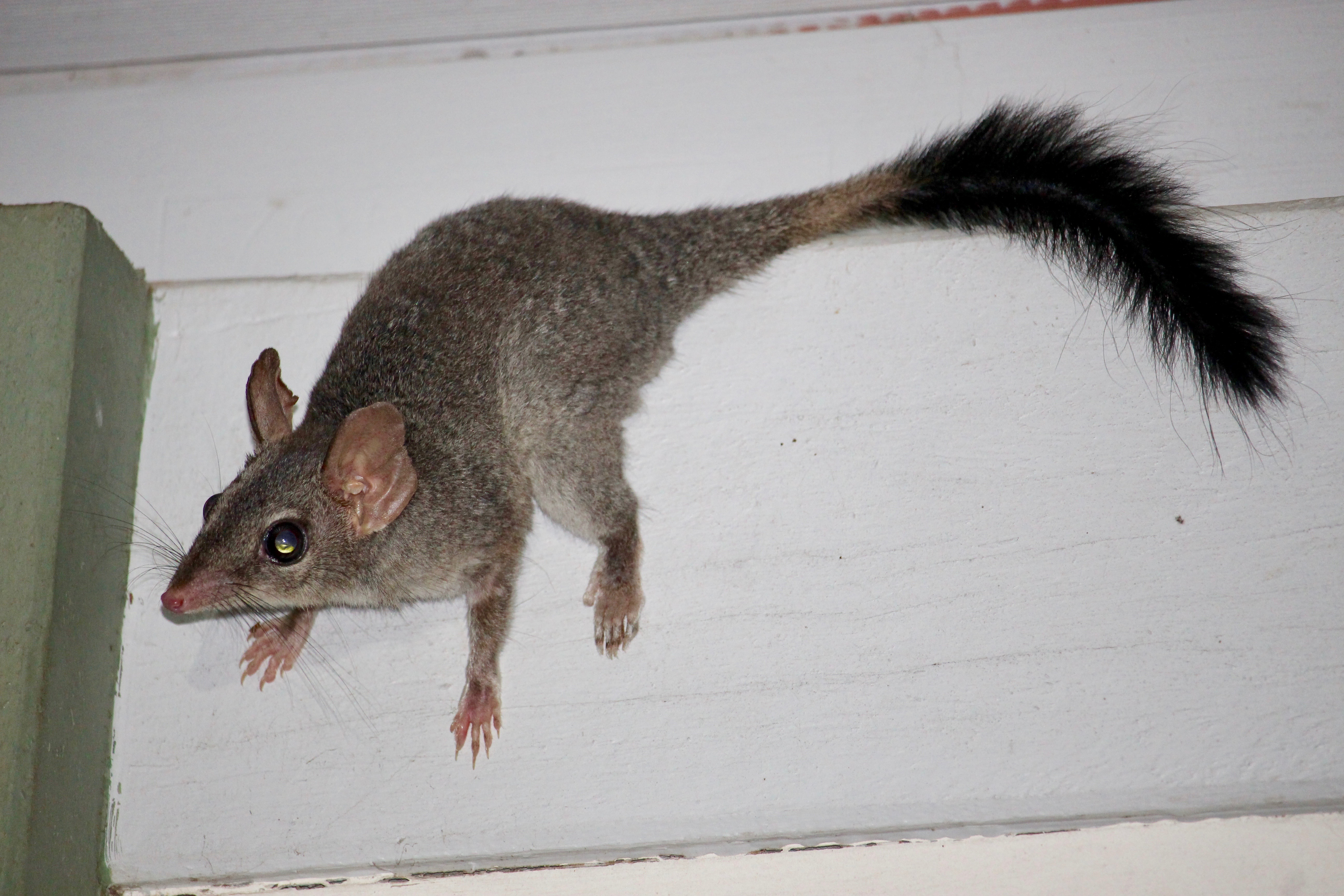 Phascogale